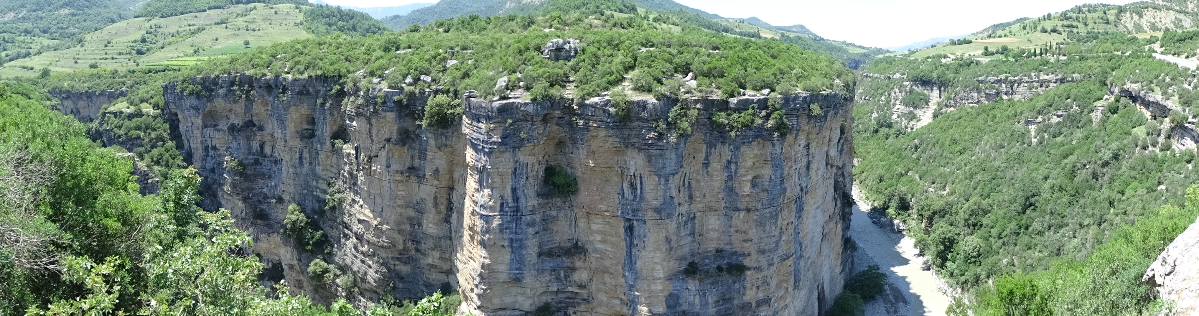 Photos by Adam Jones